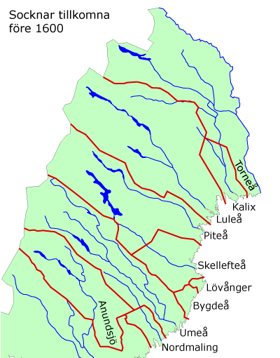 Parishes in northern Sweden (Västerbotten and Norrbotten counties), created before the year 1600. Borders are approximative.